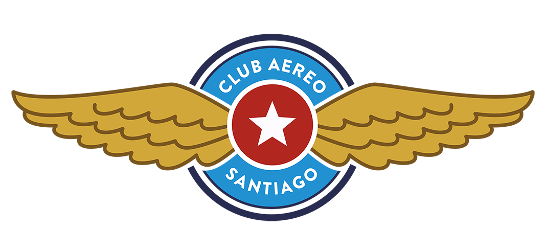 Club Aéreo de Santiago